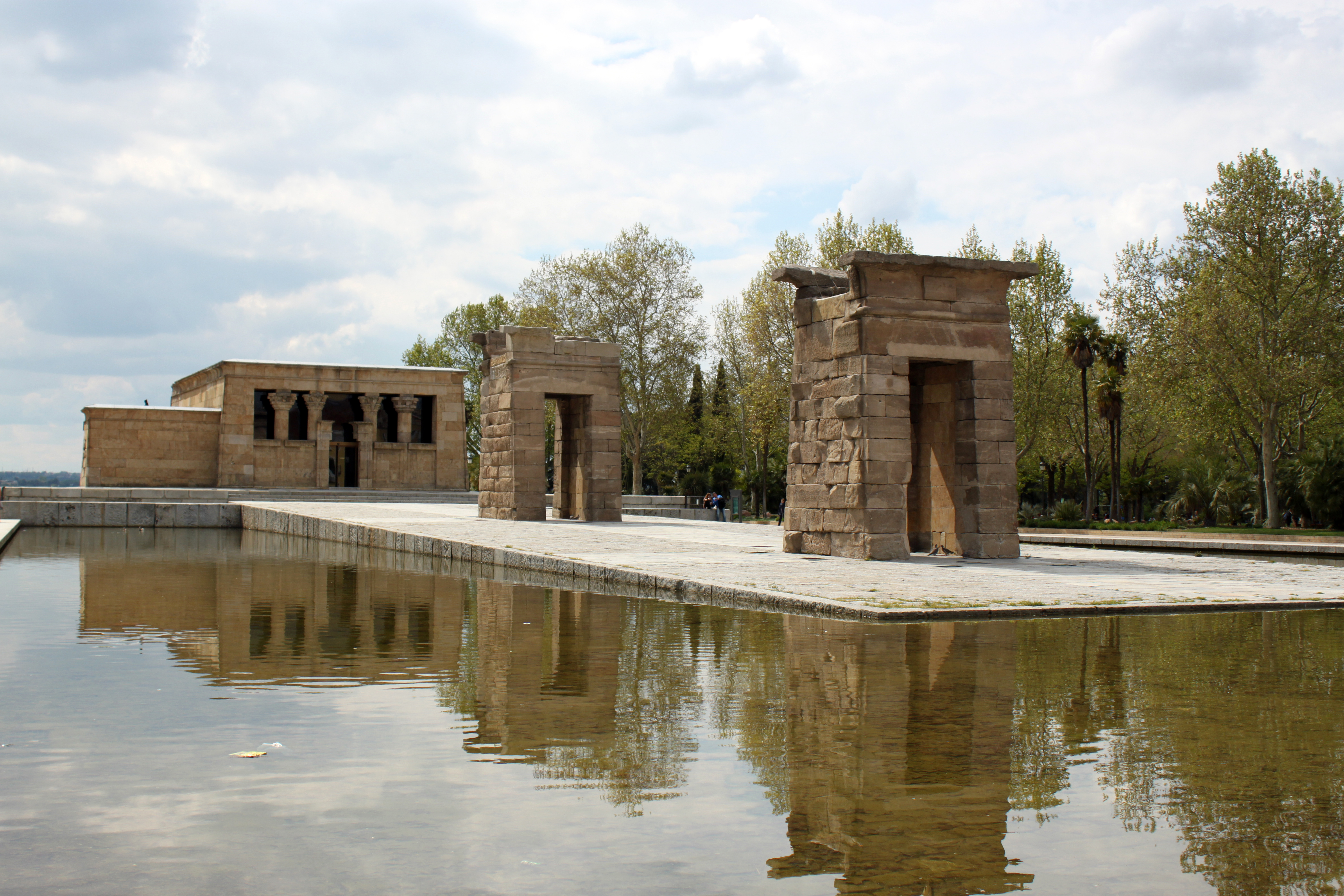 Temple of Debod, Madrid, Spain. The Temple of Debod is an ancient Egyptian temple which was rebuilt in Madrid, Spain. The temple was built originally 15 kilometres (9.3 mi) south of Aswan in southern Egypt very close to the first cataract of the Nile and to the great religious center dedicated to the goddess Isis, in Philae.